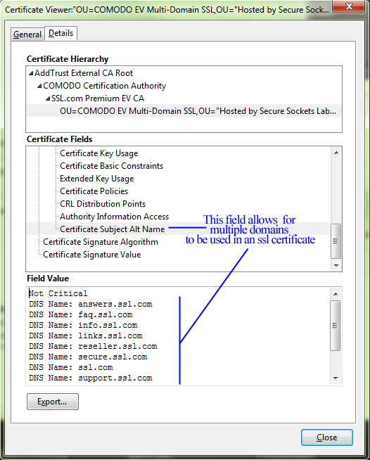 This image shows what makes an ssl certificate multi domain, thus a unified communication certificate (UCC). It's shows the Subject Alternative Name (SAN) field containing multiple domains. In addition, it shows that an Extended Validation (EV) SSL Certificate can also be UCC.